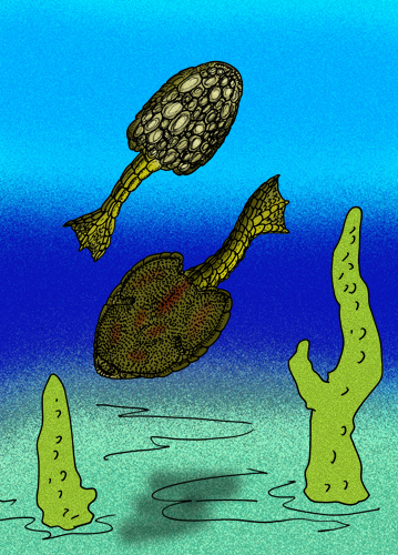 Reconstruction of the heterostracan agnathan, Cardipeltis bryanti, of the Lower Devonian-aged Beartooth Butte Formation of Wyoming and Utah.